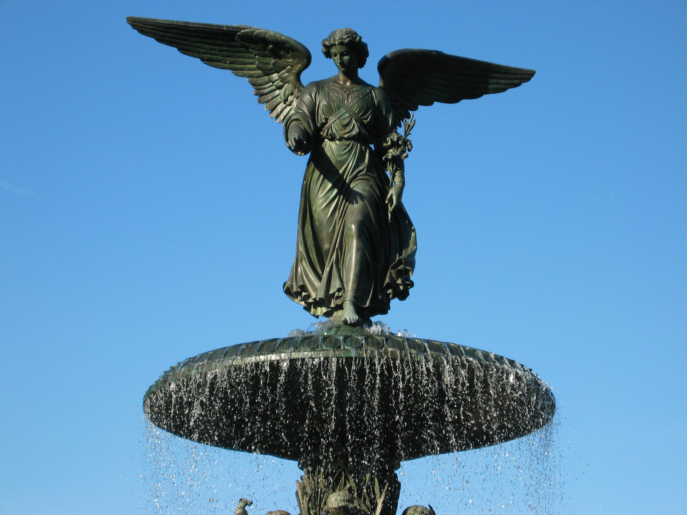 The famous angel fountain in Central Park, NYC.